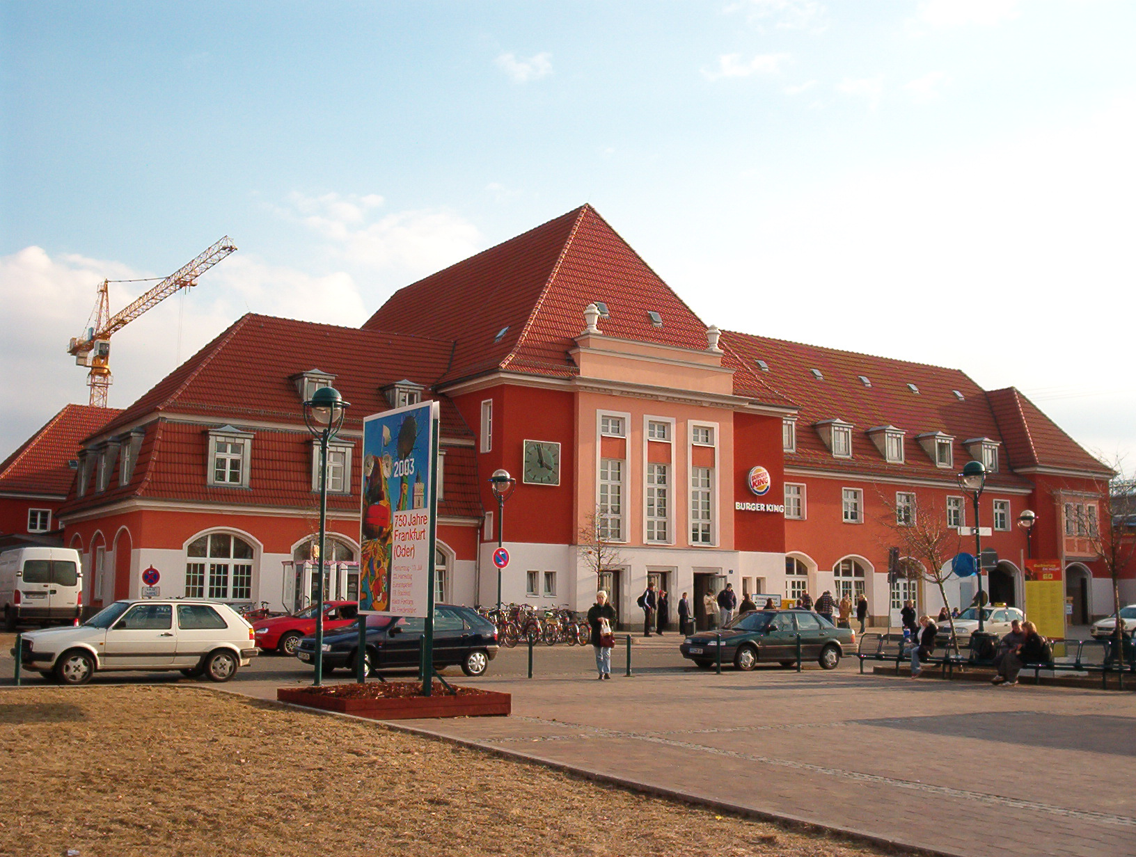 The main station in Frankfurt (Oder). Taken by ProhibitOnions, 2003